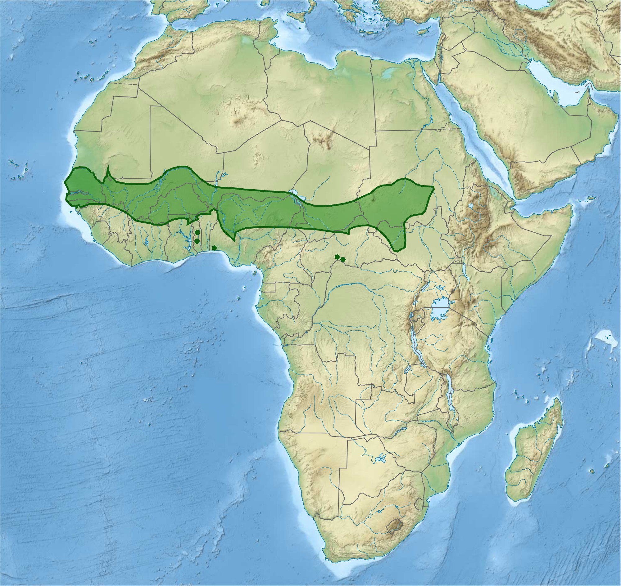 Distribution of the Long-tailed Glossy-starling (Lamprotornis_caudatus), based on: Leslie Brown, Emil K. Urban, Kenneth B. Newman: The Birds of Africa. Vol. 6: Picathartes to Oxpeckers. Academic Press, 2000. ISBN 0121373061, p. 613.